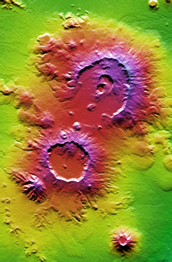 Nabro Volcano (upper right, in Eritrea) and Mallahle Volcano (lower left, in Ethiopia). SRTM Colored Height and Shaded Relief image.